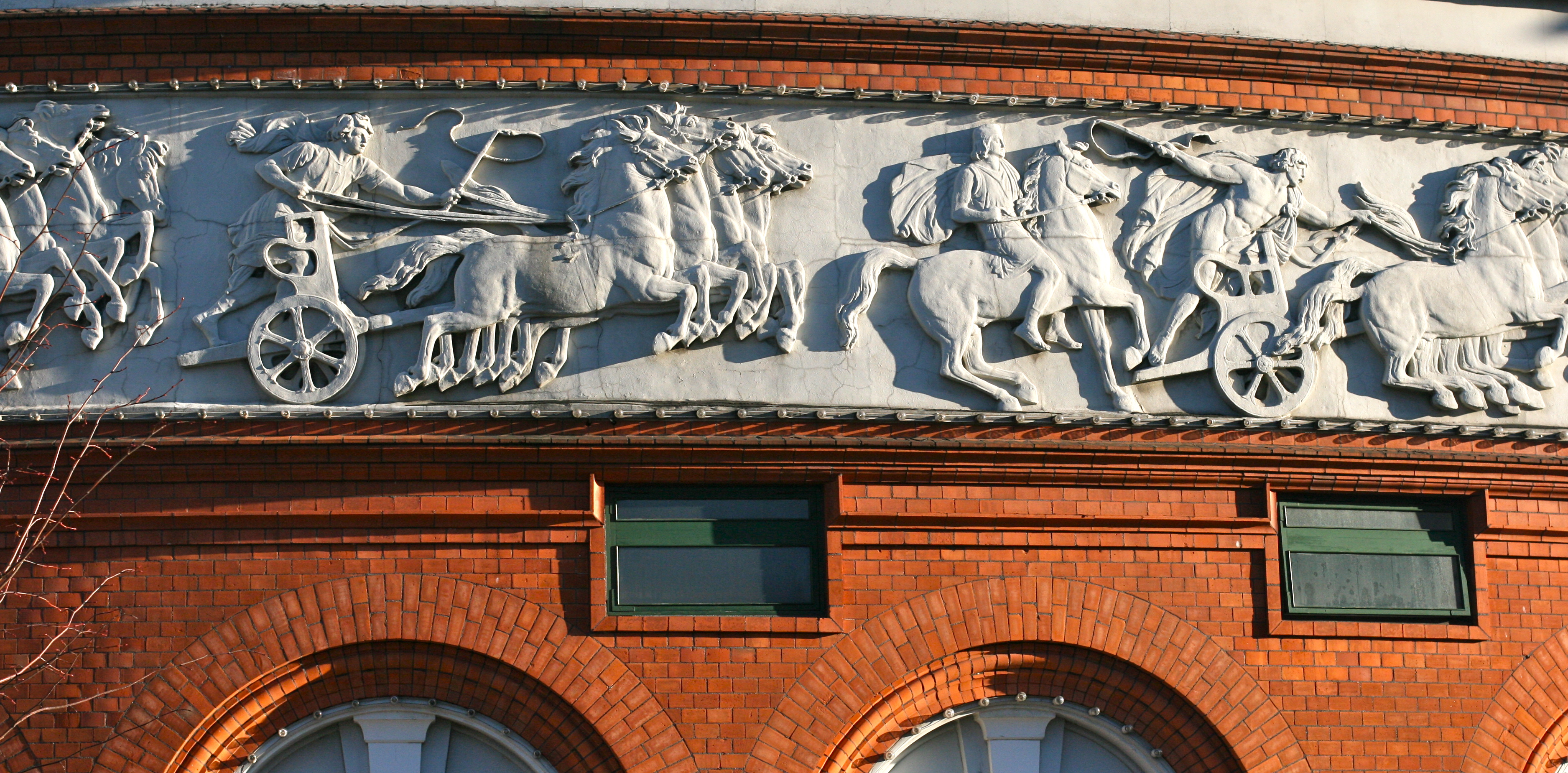 The frieze at the Circus Building in Copenhagen, Denmark